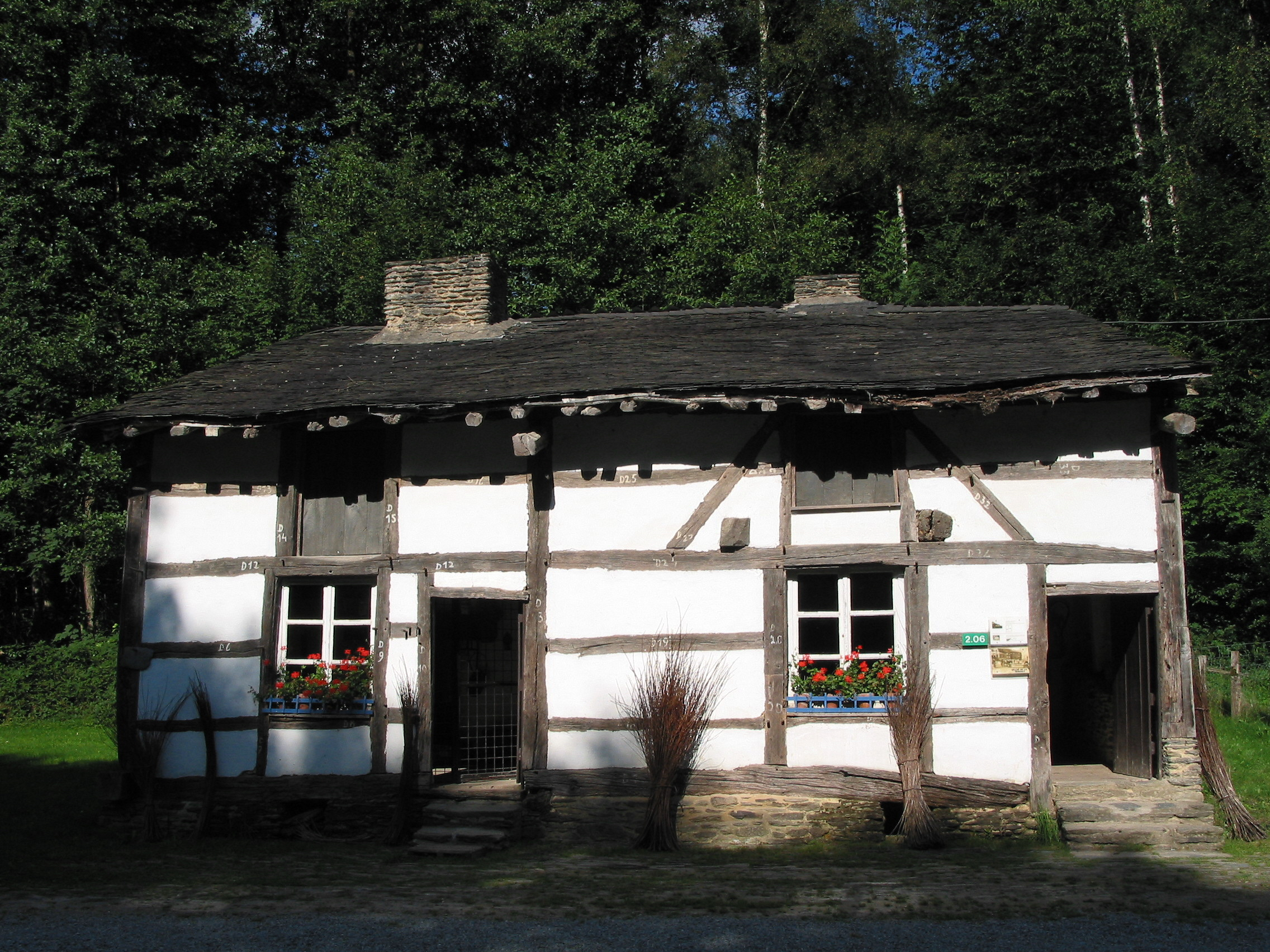 Saint-Hubert (Belgium): St. Michael's Furnace property – Museum of Country Life in Wallonia – Double thatched cottage of the Semois area (Sugny - XVIIIth century) transplanted and reconstituted on this location (1977-1978).